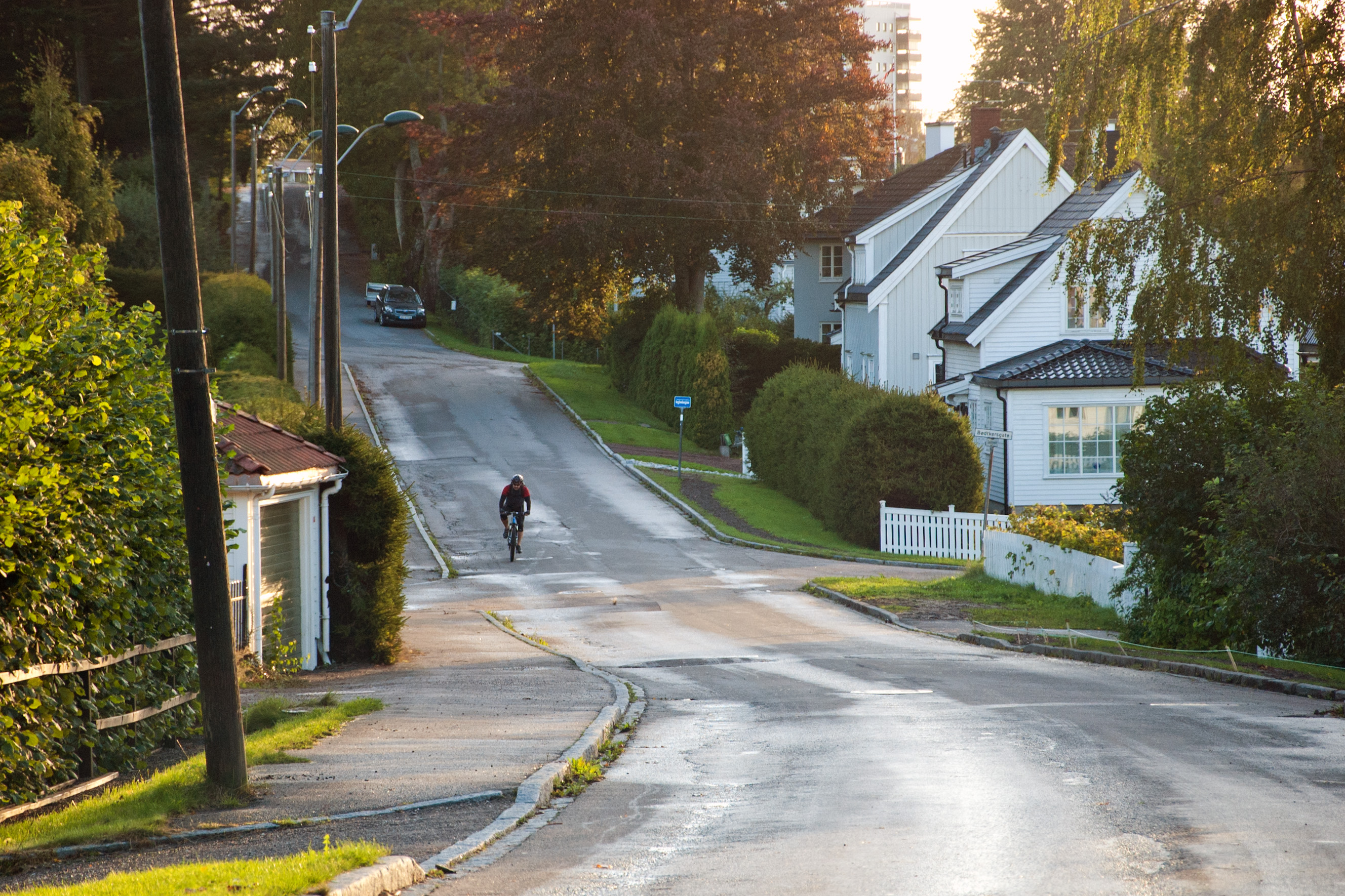 County road 461 Grevinneveien ("Countess road") in Tønsberg, Vestfold county, Norway